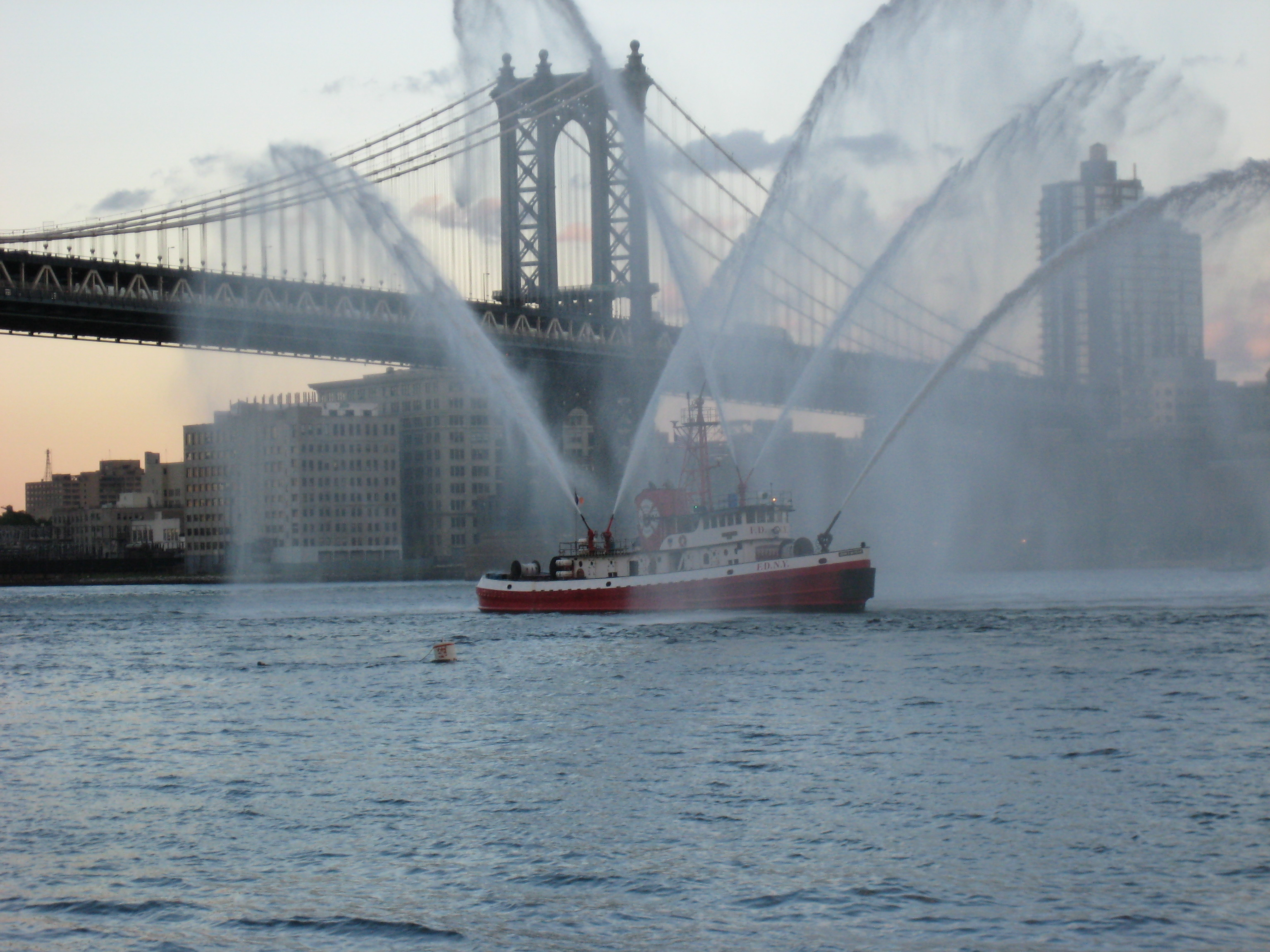 Manhattan Bridge and fireboat